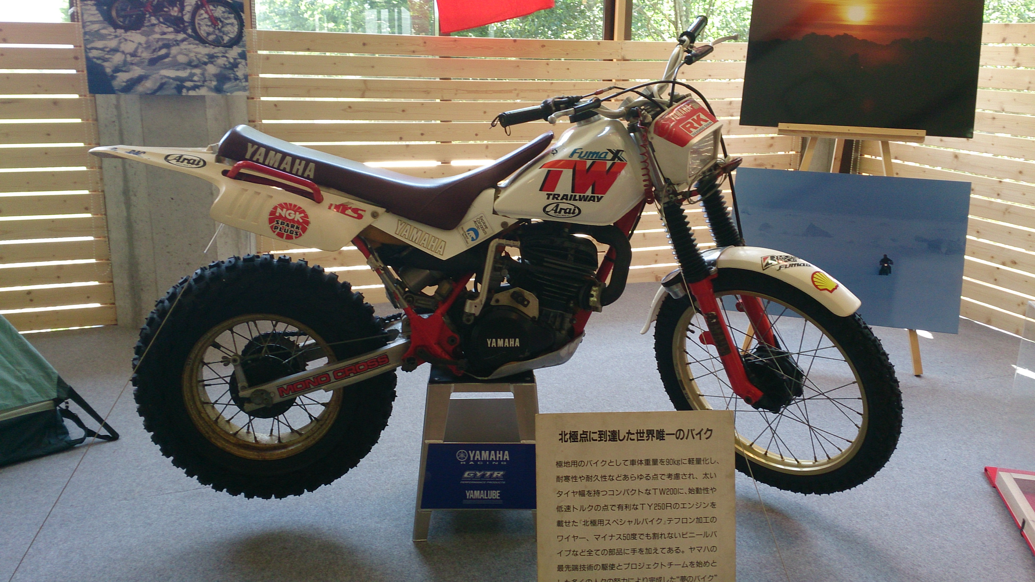 Motorcycle reached the South Pole with Japanese adventurer Shinji Kazama. This is special specification motorcycle based YAMAHA TW200. Exhibited in the "Roadside Station Mitomi" Yamanashi prefecture Japan.